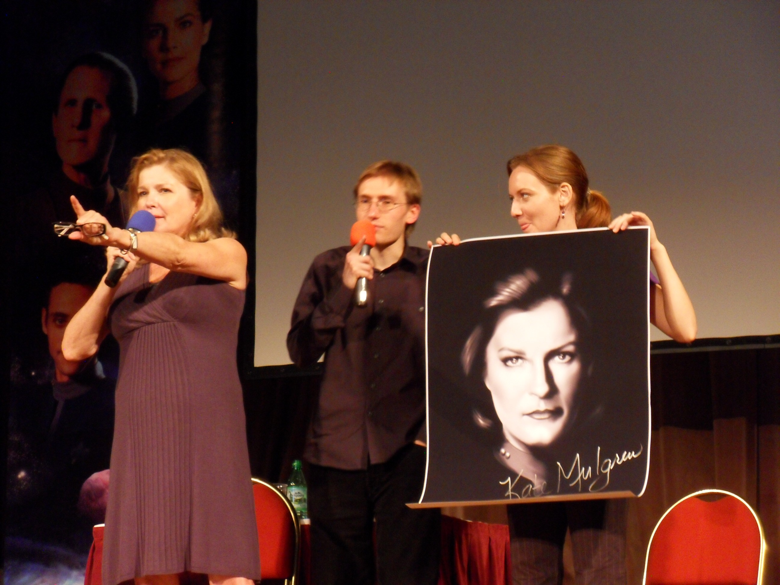 American actress Kate Mulgrew at "Kate v Praze" (Kate in Prague) con, Prague, Czech Republic